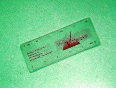 little rule